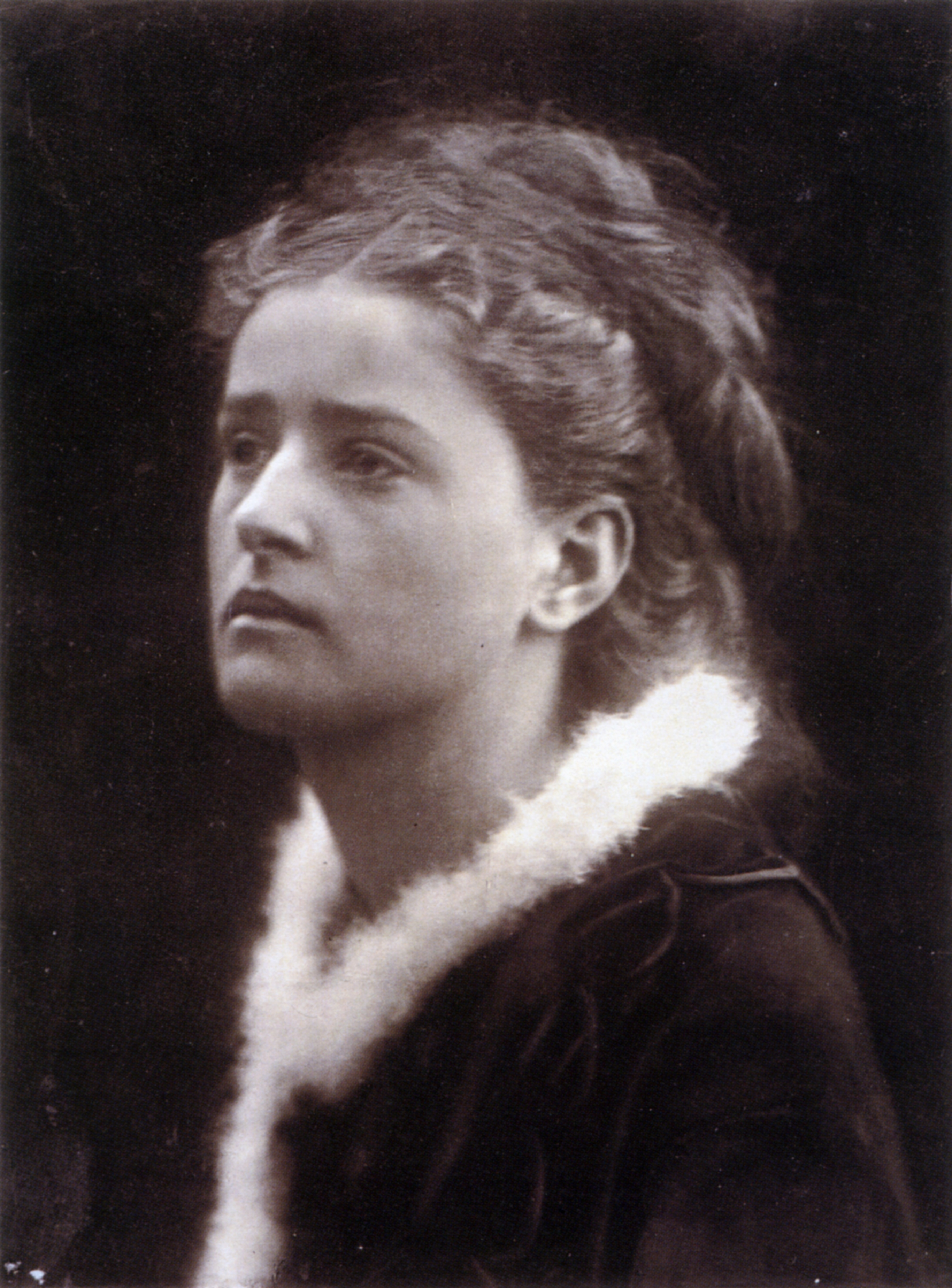 The Angel in the House. Depicts Emily Peacock. Carbon print, 350 x 254mm (13 3/4 x 10").